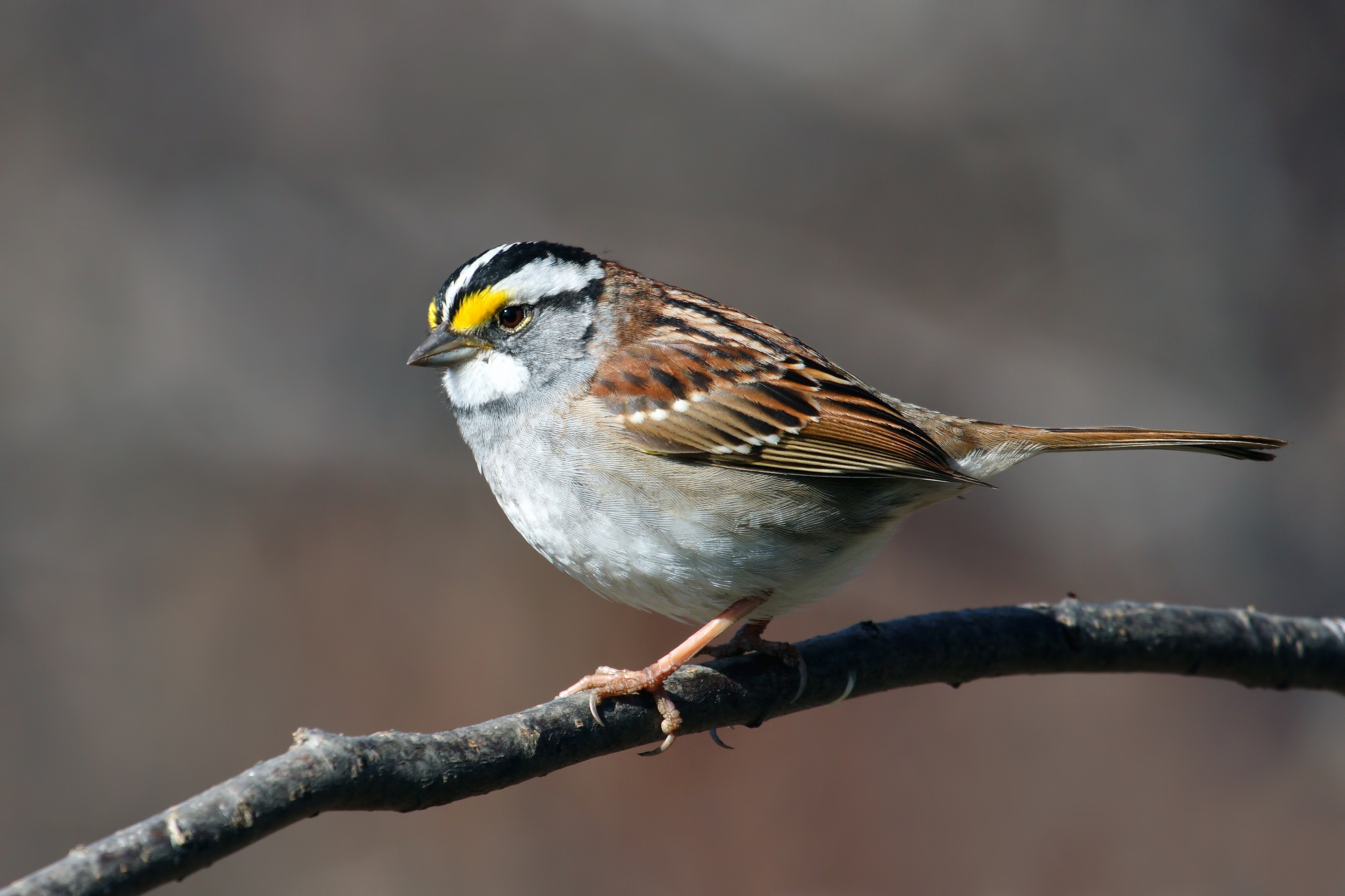 White-throated Sparrow (Zonotrichia albicollis), Cap Tourmente National Wildlife Area, Quebec, Canada.